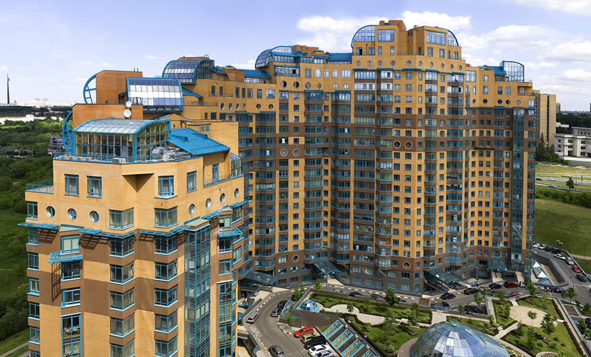 famous moscow building